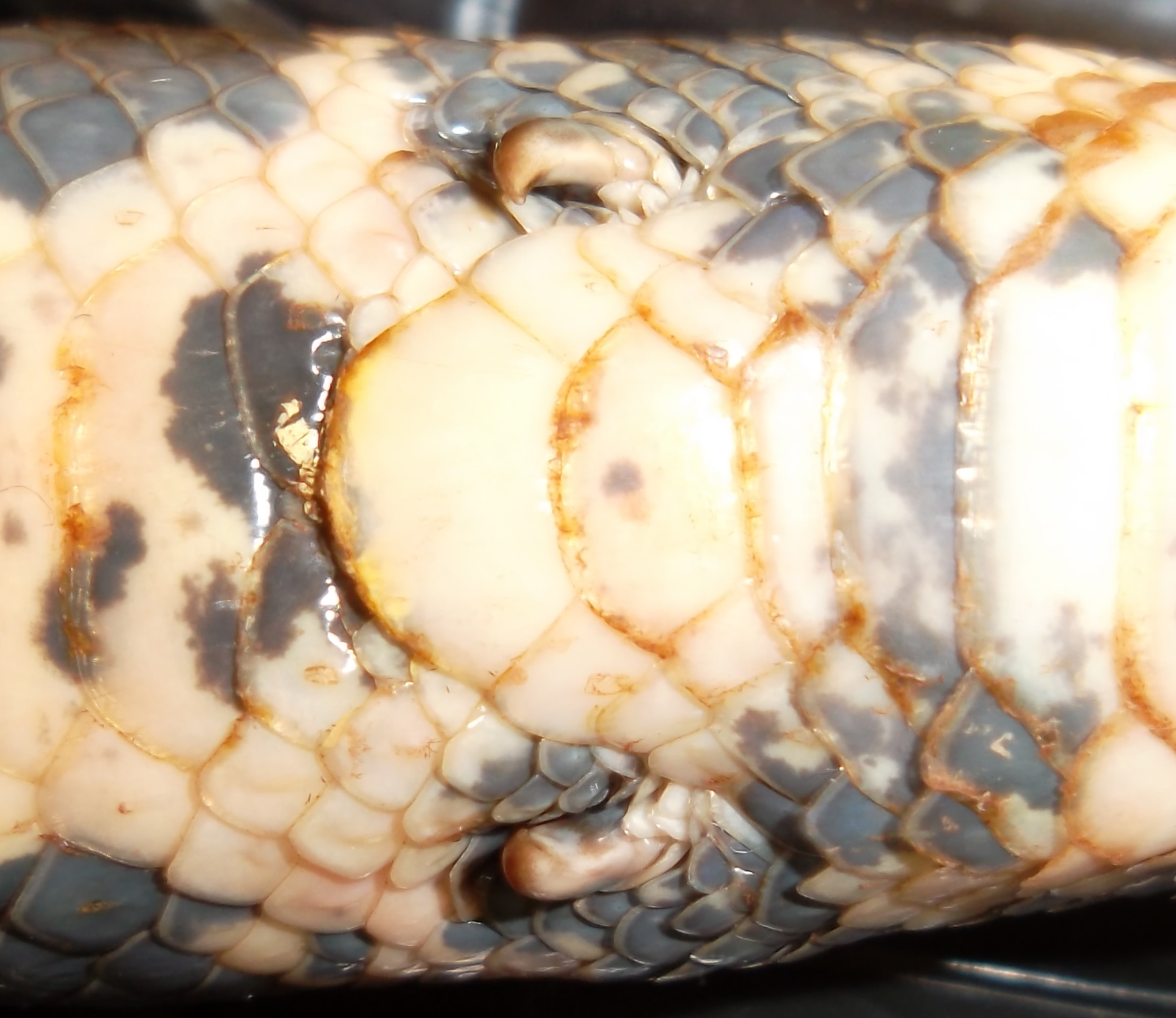 This image shows the cloaca region of a Boa constrictor with spurs (rudimentary hindlegs)